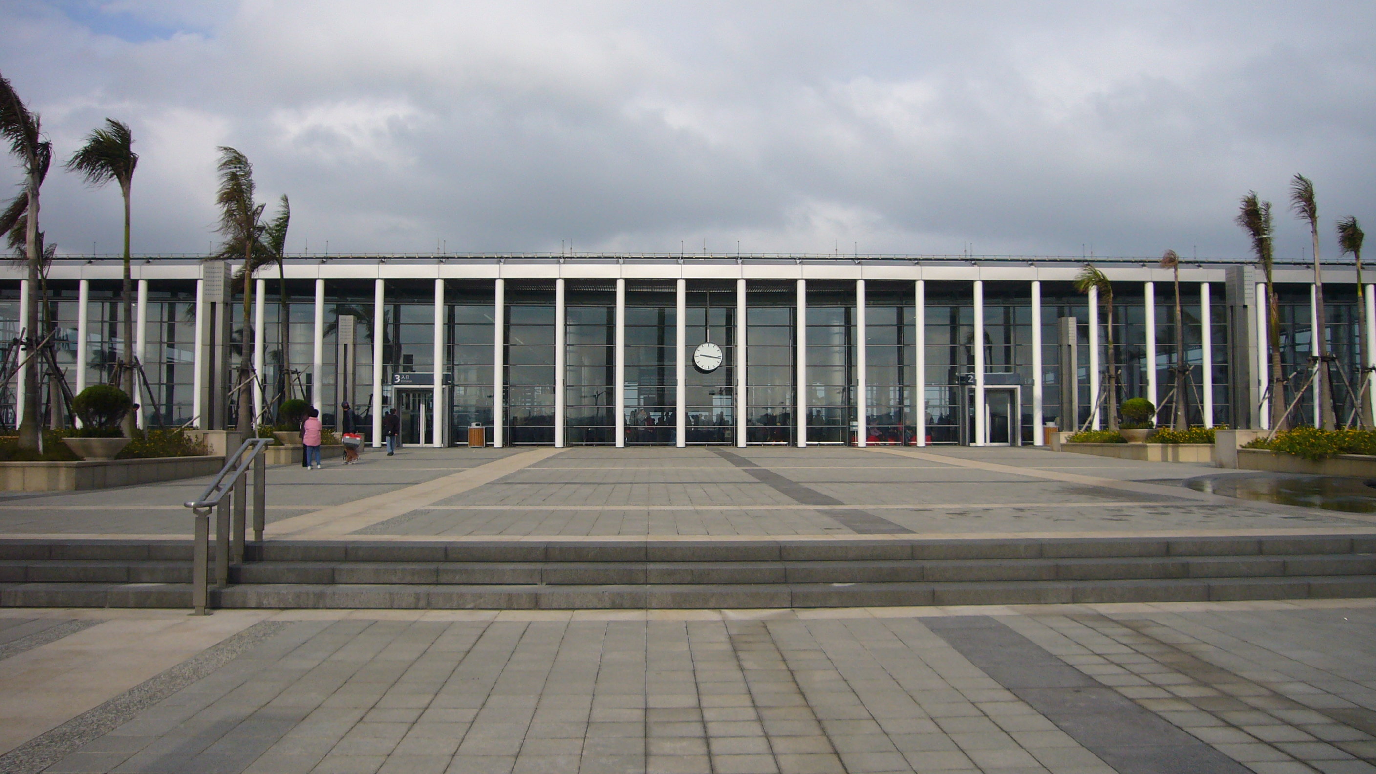 THSR Taoyuan Station